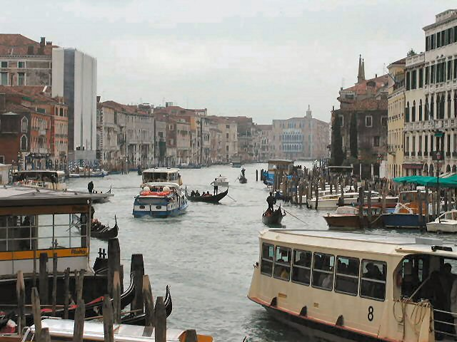 Grand Canal from Rialto Br Bridge